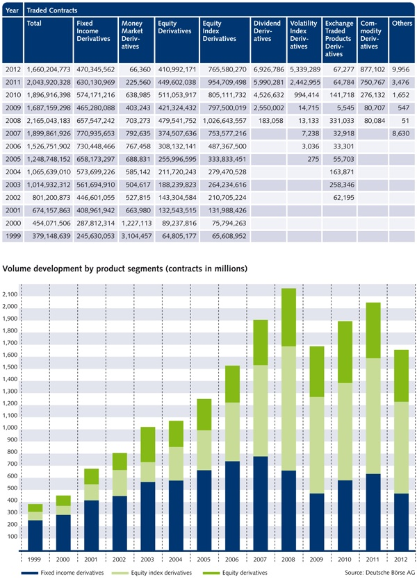 Volume development by product segments 1999-2012